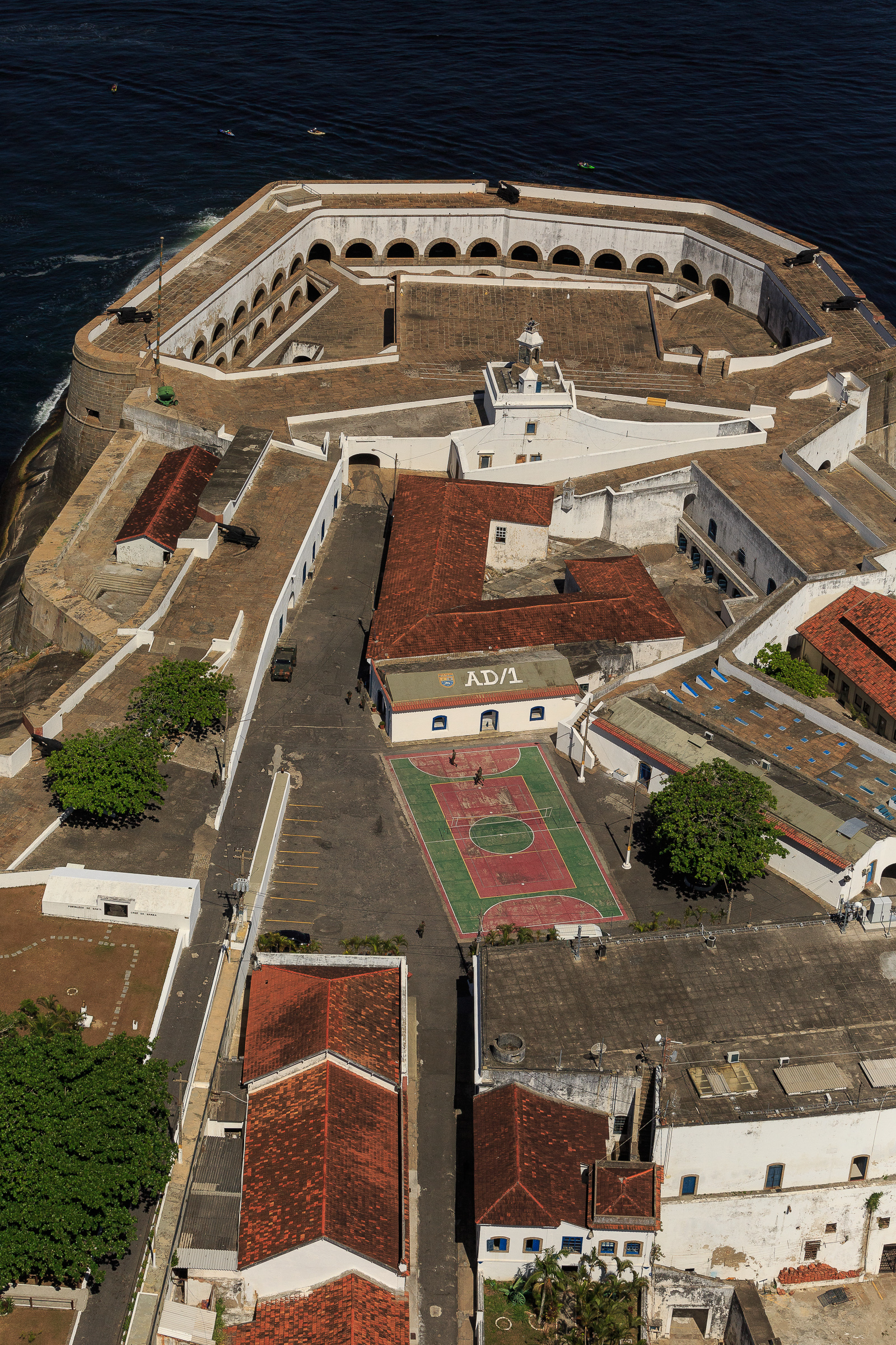 Vista aérea da Fortaleza de Santa Cruz da Barra na cidade de Niterói